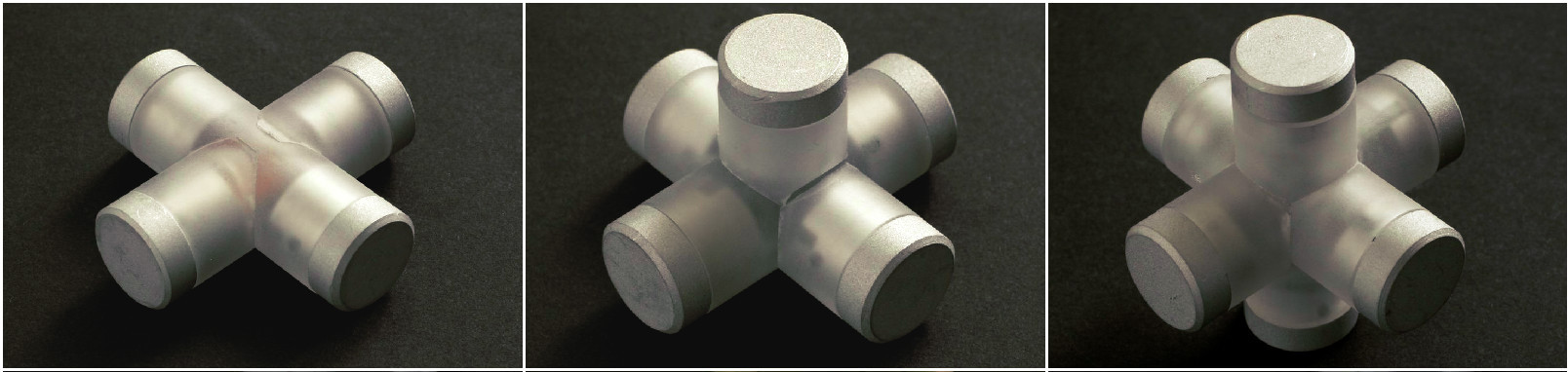 3D elements